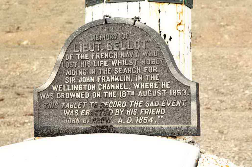 Beechey Island (Nunavut, Canada): Bellot memorial tablet at Belcher Column